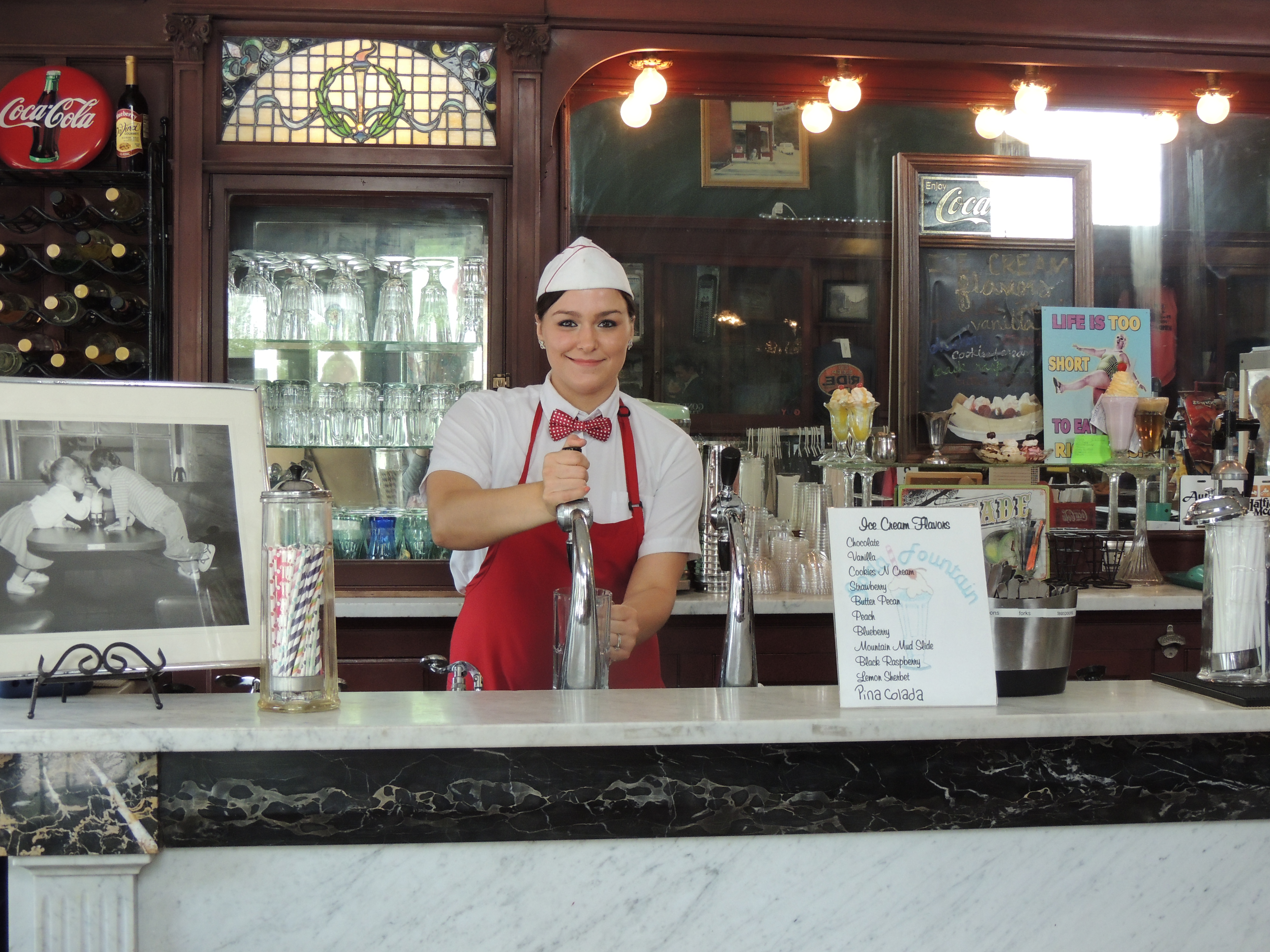 The Corner Shop Diner in Bramwell, WV. Most of this store, including the floor and soda counter, are original. This store opened circa 1910 as the Bryant Pharmacy and is still in business. The building is part of the Bramwell Historic District.